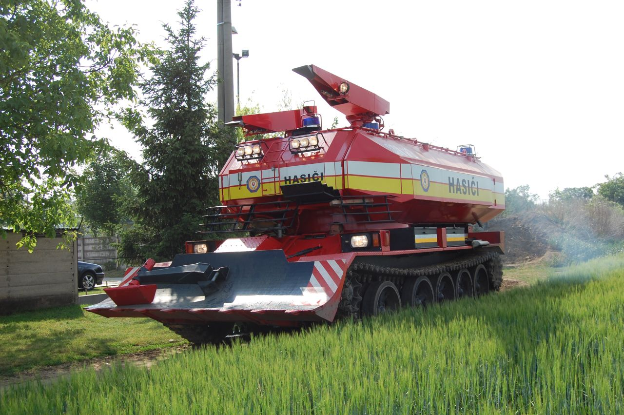 T-55 or SPOT, adjusted to be used in special fire-fighting operations of the Voluntary Fire Brigade DHZ POLE of Slovakia